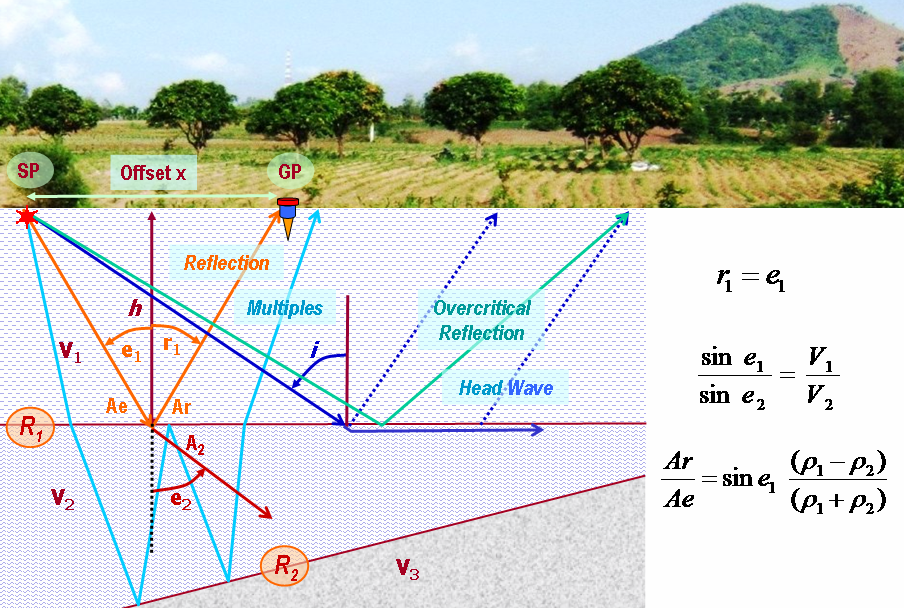 Seismic Reflection Principal